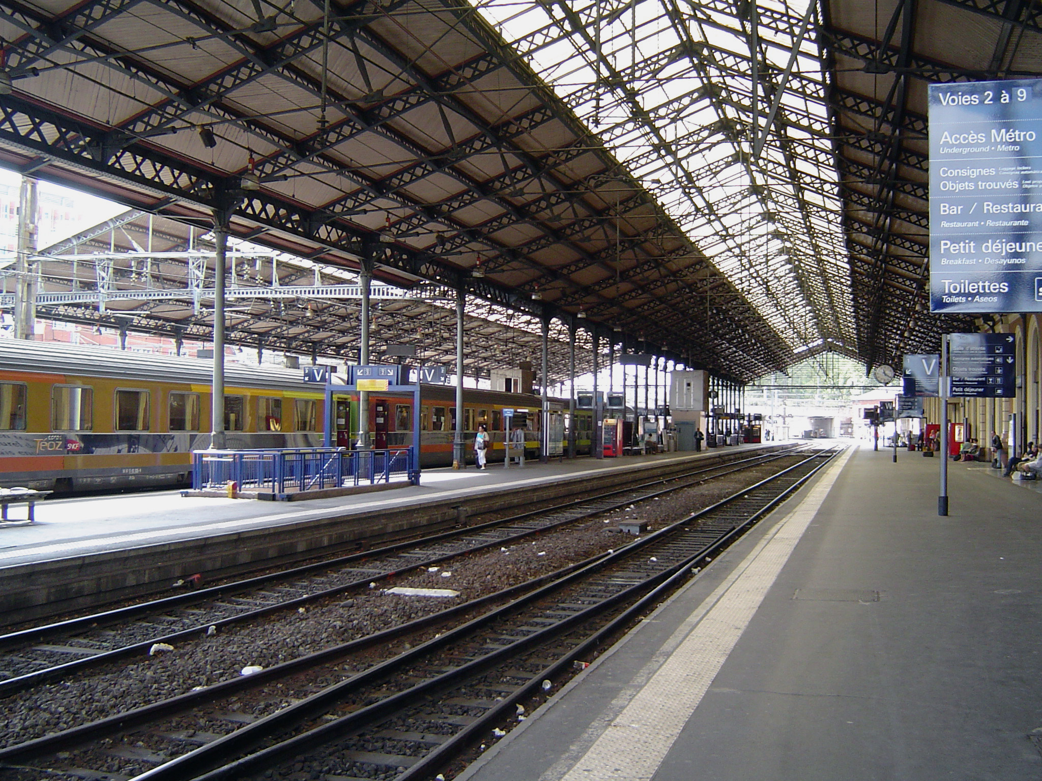 A Corail Téoz in the Toulouse-Matabiau train stationUnknown